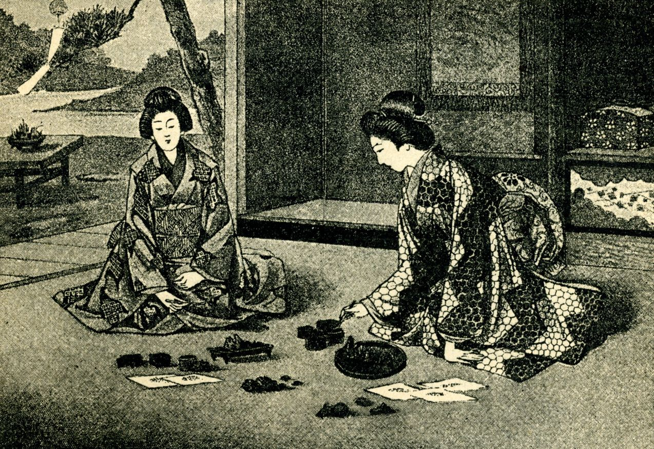 Home sketch in Japan. Image from the book "Japan And Japanese" (1902). Page 67. They are enjoying the hobby called Bonkei or Bonseki. 盆景、盆石